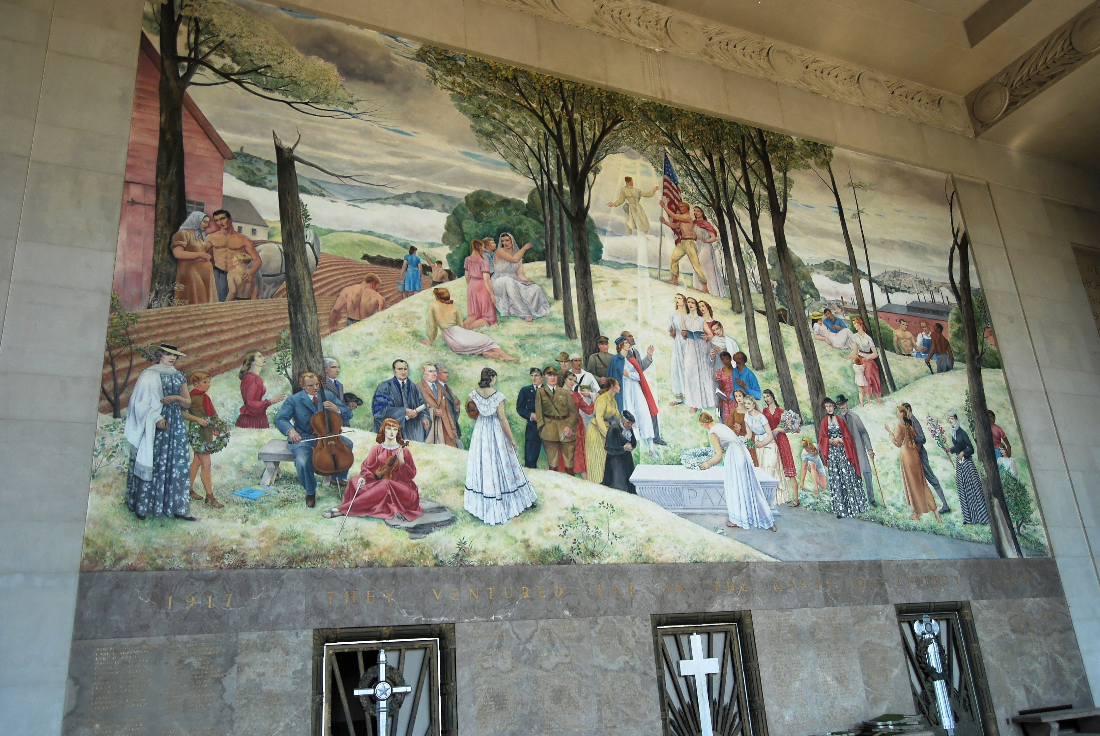 Worcester Memorial Auditorium, Worcester, Massachusetts